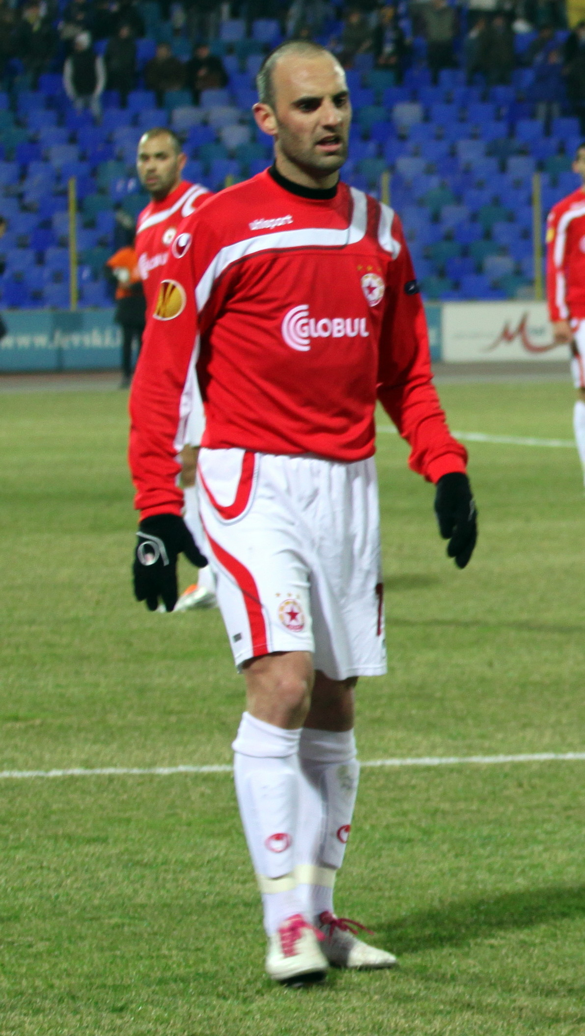 Apostol Popov (Bulgarian: Апостол Попов) (born December 22, 1982 in Plovdiv) is a football defender from Bulgaria currently playing for PFC CSKA Sofia.[1] His height is 1,84m and his weight is 80 kg.